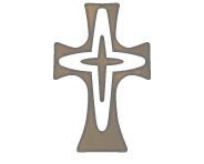 Cross of the Sisters of Mercy, from a devotional print, ca. 1920